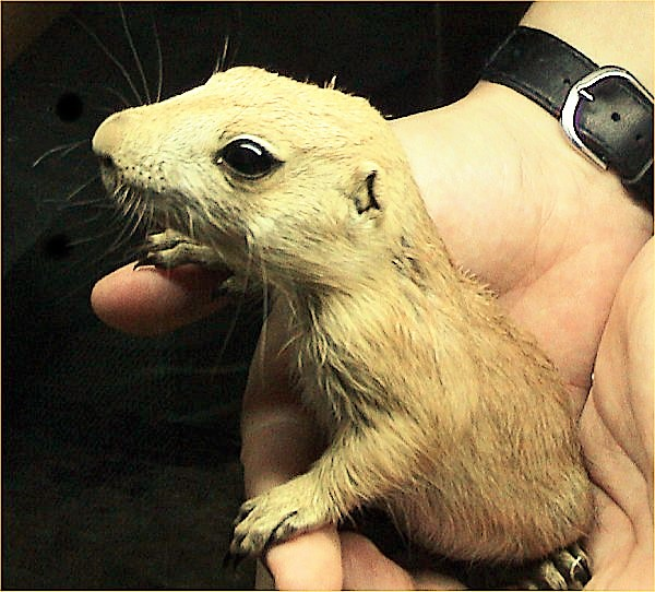 Black-tailed Prairie Dog (Cynomys ludovicianus)